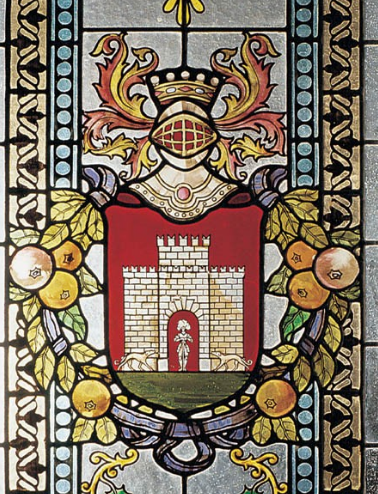 Adragna family stained glass coat of arms, Pallazo Adragna